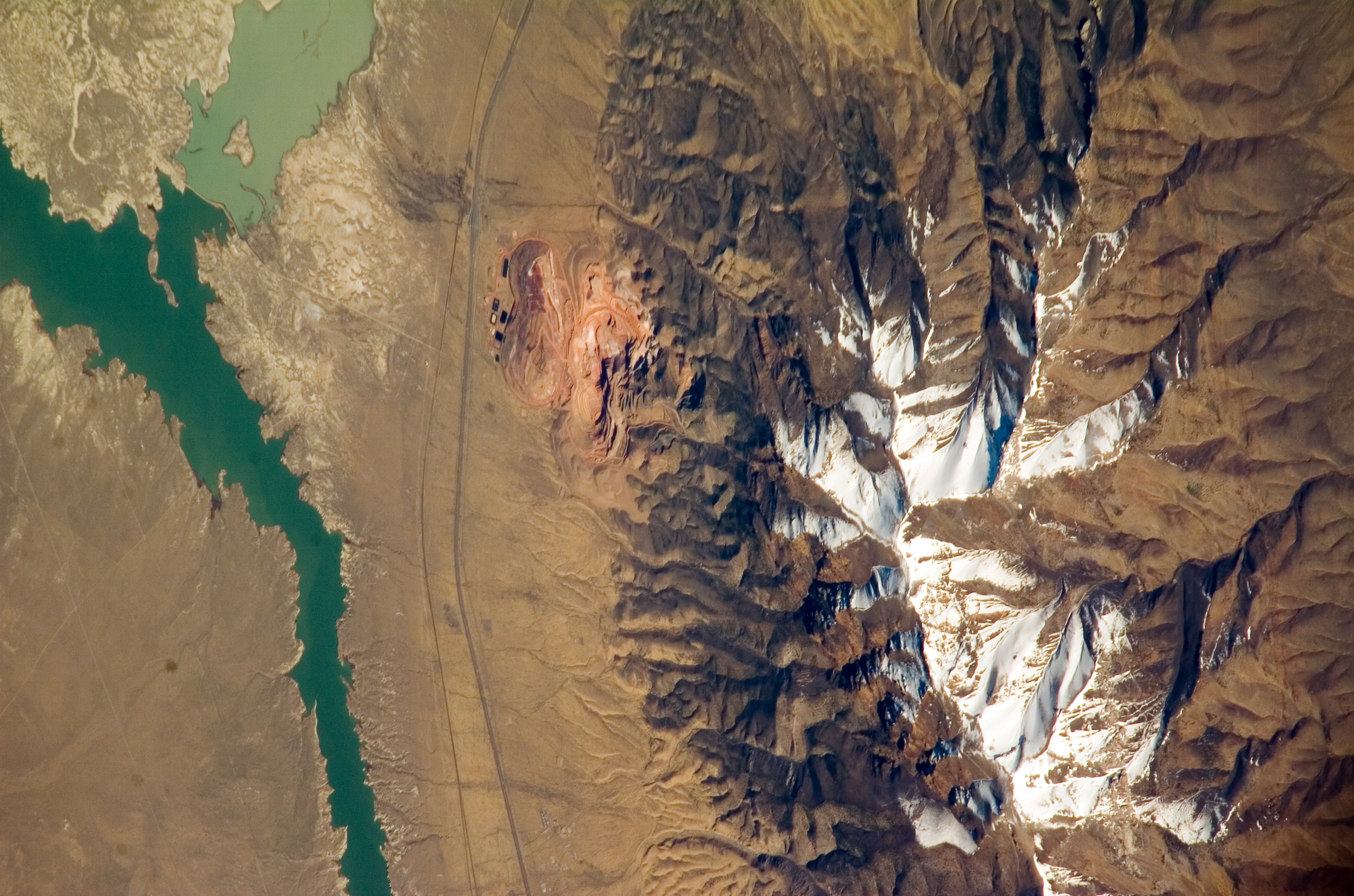 Photograph of a portion of the Rye Patch Reservoir, Nevada, with West Humboldt Range to the east (right). Rotated to closer to "North up" by up-loader.